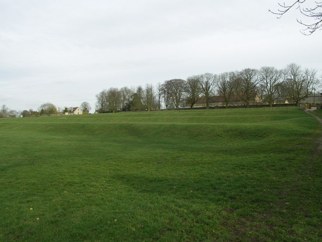 Manorial Earthworks. The remains of terraces associated with a medieval manor house.